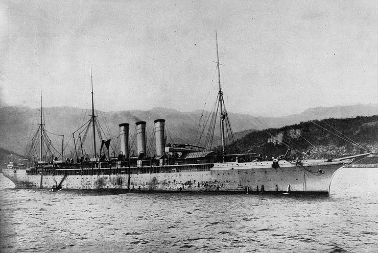 USS Yale (1898) in Cuban waters during the Spanish-American War. This ship also served during 1918-1919 as USS Harrisburg (ID# 1663). Original caption: “Photo # NH 85345 USS Yale in Cuban waters, 1898” — removed caption